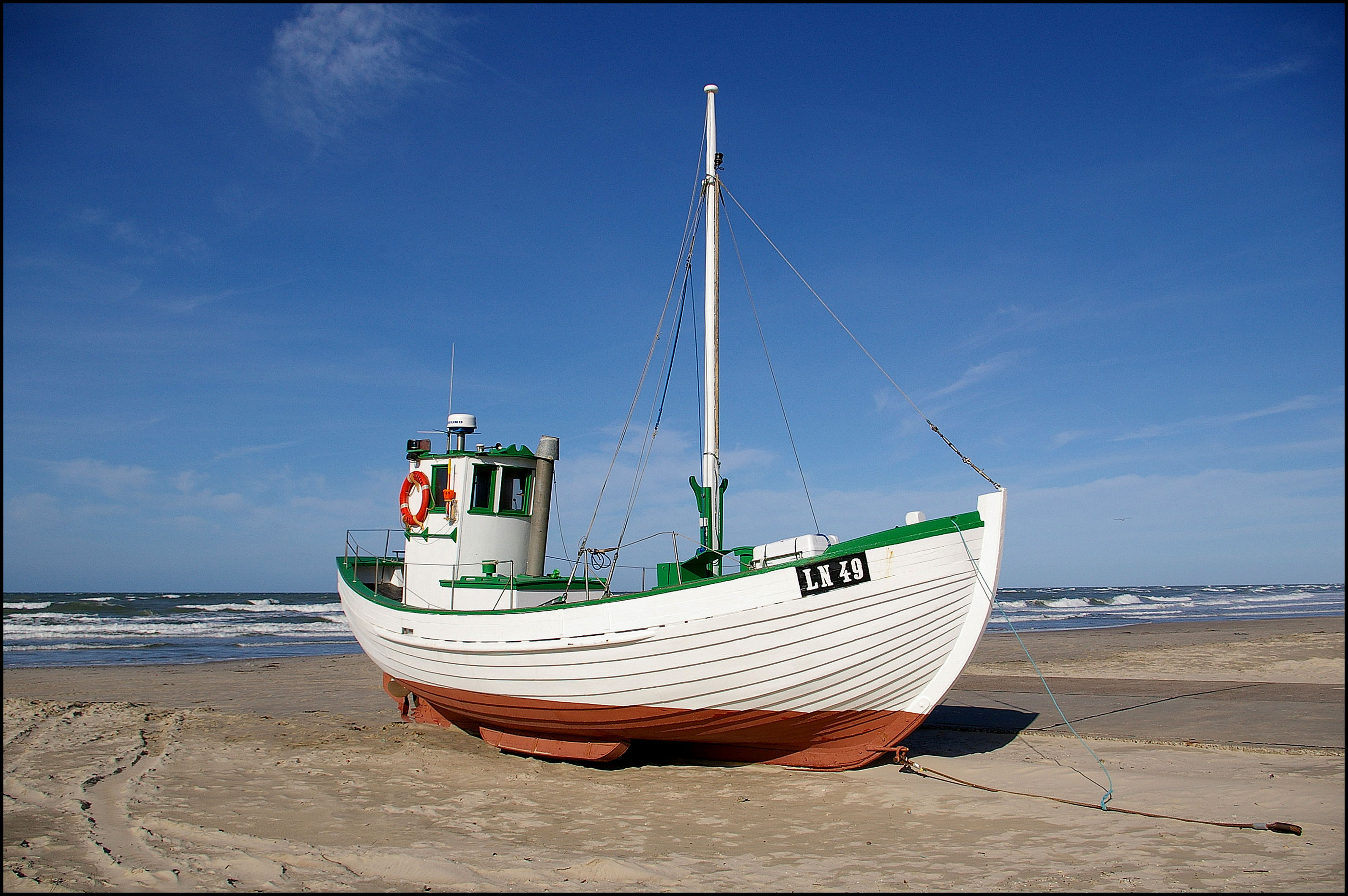 From Løkken, Denmark.